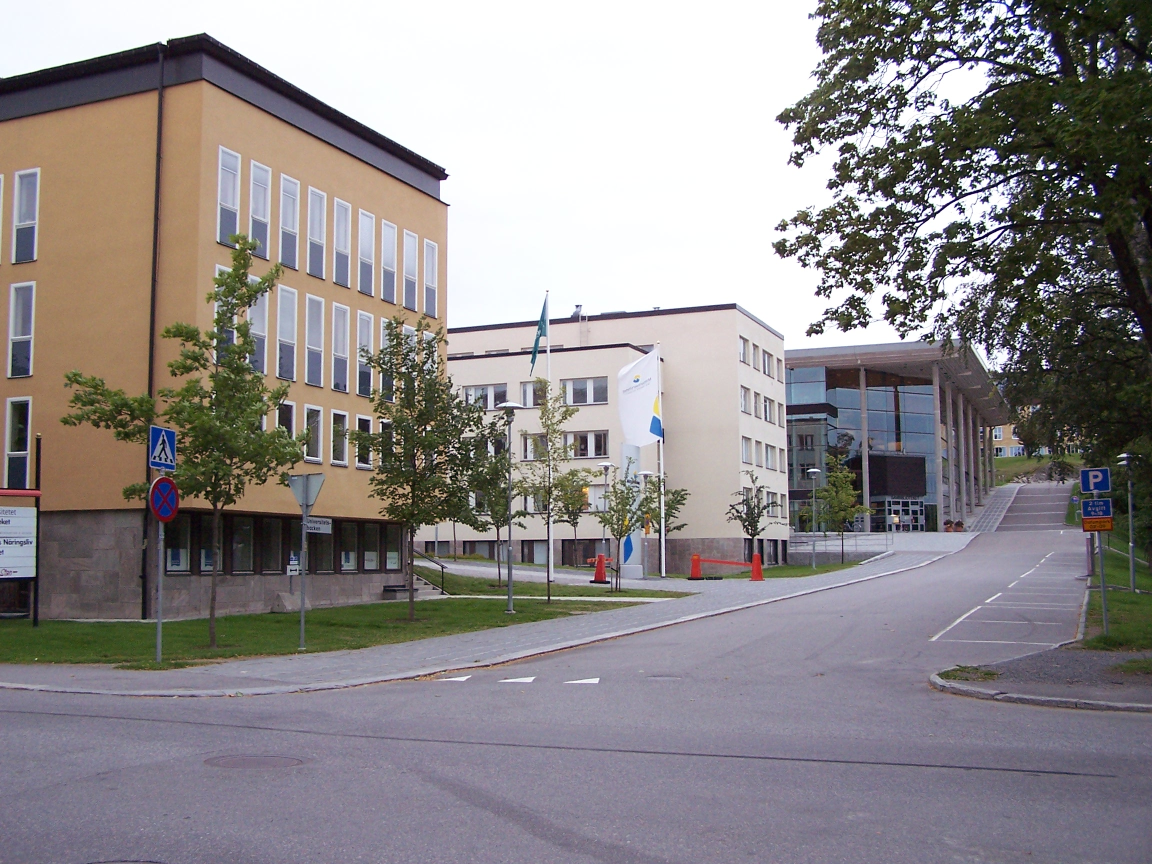 Mid Sweden University - Härnösand.